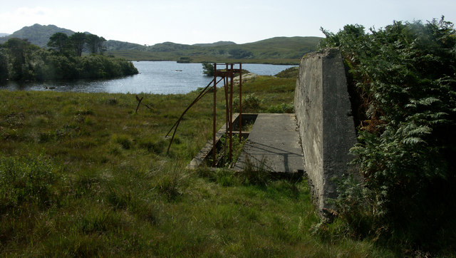 Target. This target was probably erected during World War II for use by SOE agents training at nearby Glasnacardoch House which was STS22a during WWII and used for training in the use of foreign weapons. [1]